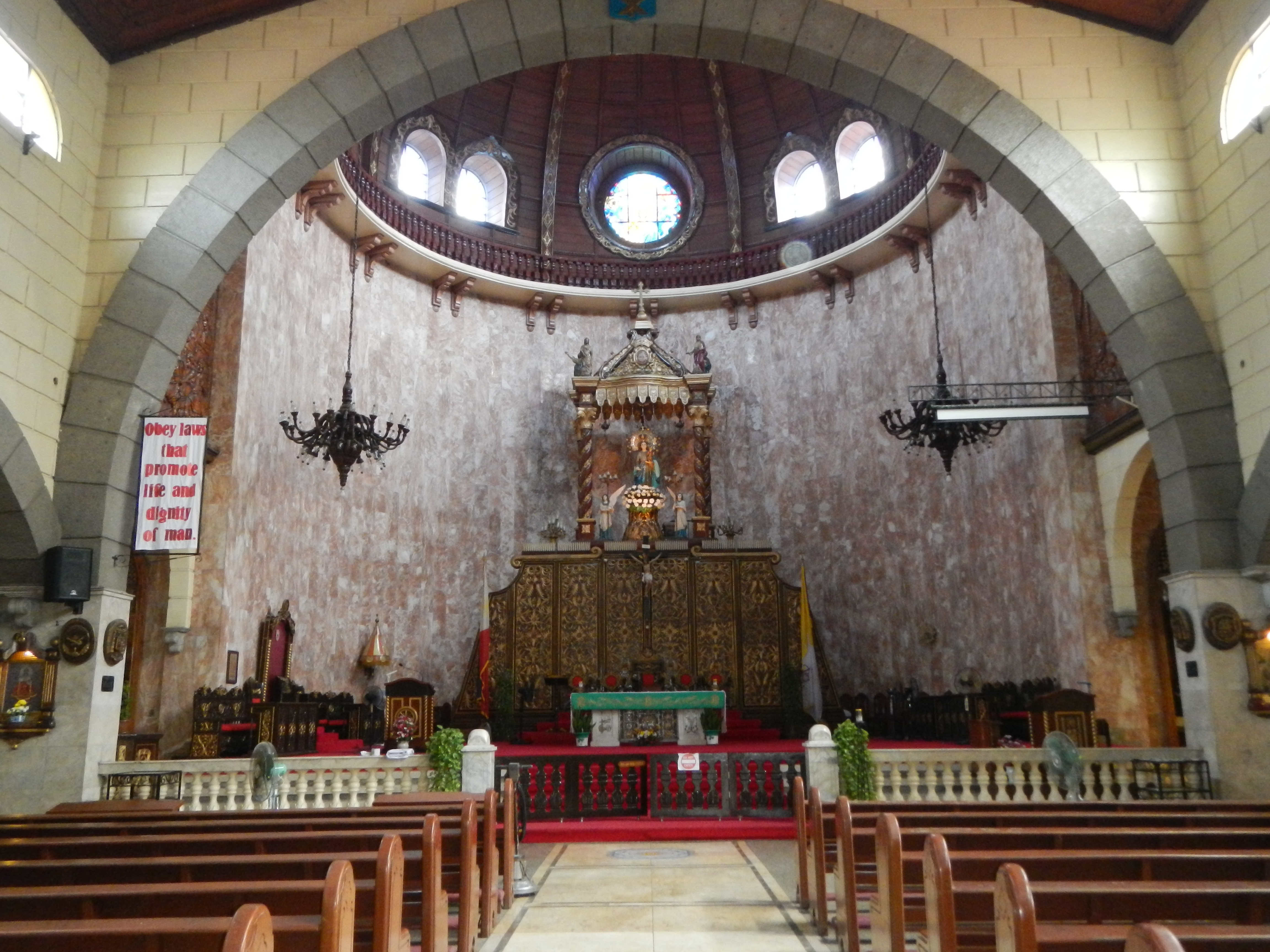 Photos of the Cultural Heritage Philippine treasure, ageless - Agoo Basilica or Basilica Minore of Our Lady of Charity in Agoo, La Union.